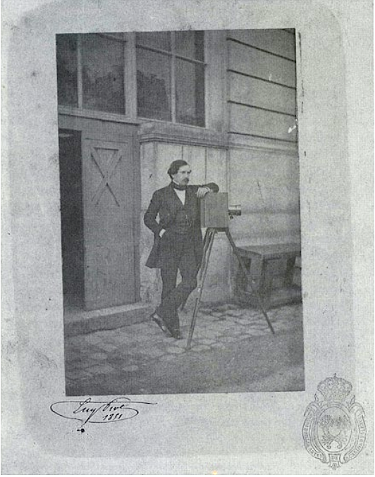 Eugène Piot in the courtyard of 15 Rue de l'Arcade, Paris, calotype by Benito Monfort — Collection of the Royal Academy of Fine Arts of San Carlos of Valencia.